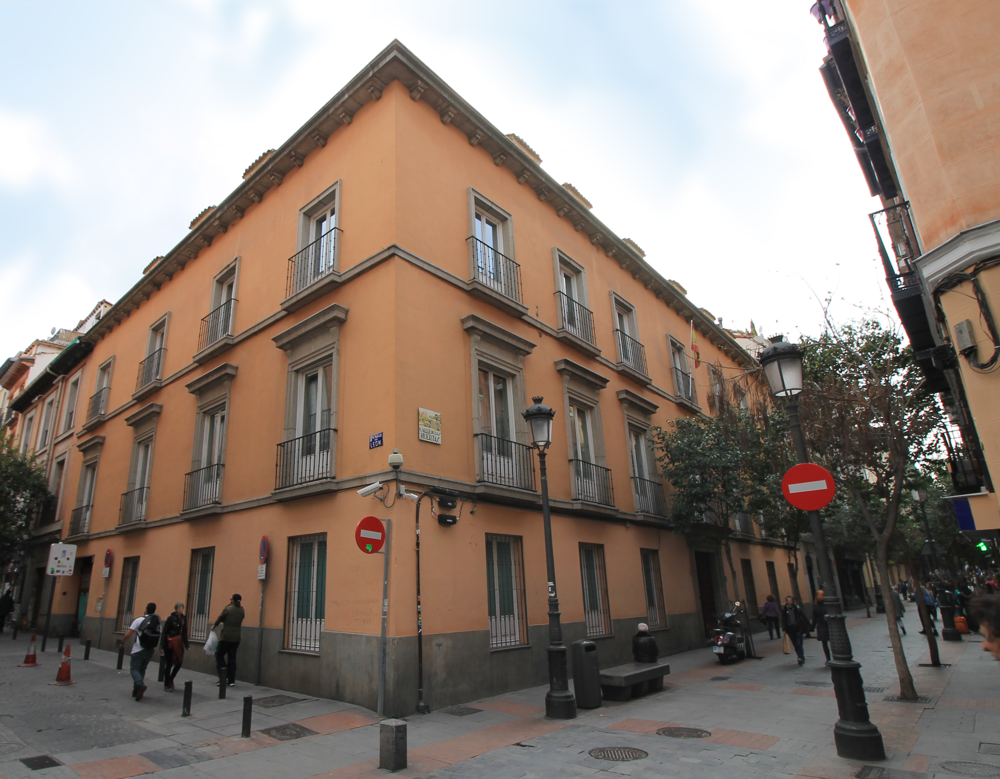 Former Casa de la Mesta at 26 Calle de las Huertas (street) in Centro district in Madrid (Spain). Built between 1775 and 1790.